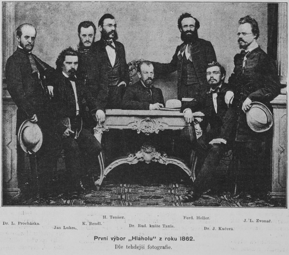 The committee of Hlahol, Czech choir, in 1862.